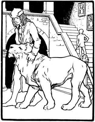 Illustration by Otto Ubbelohde to the fairy tale The Twelve Huntsmen